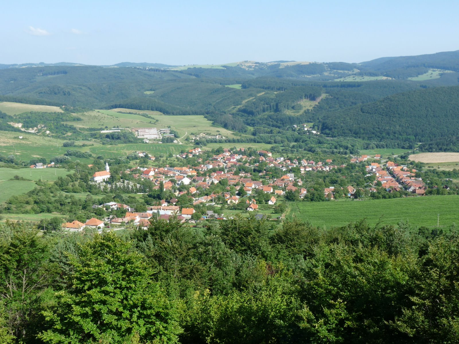 Pohľad na obec z rozhľadne Drienová